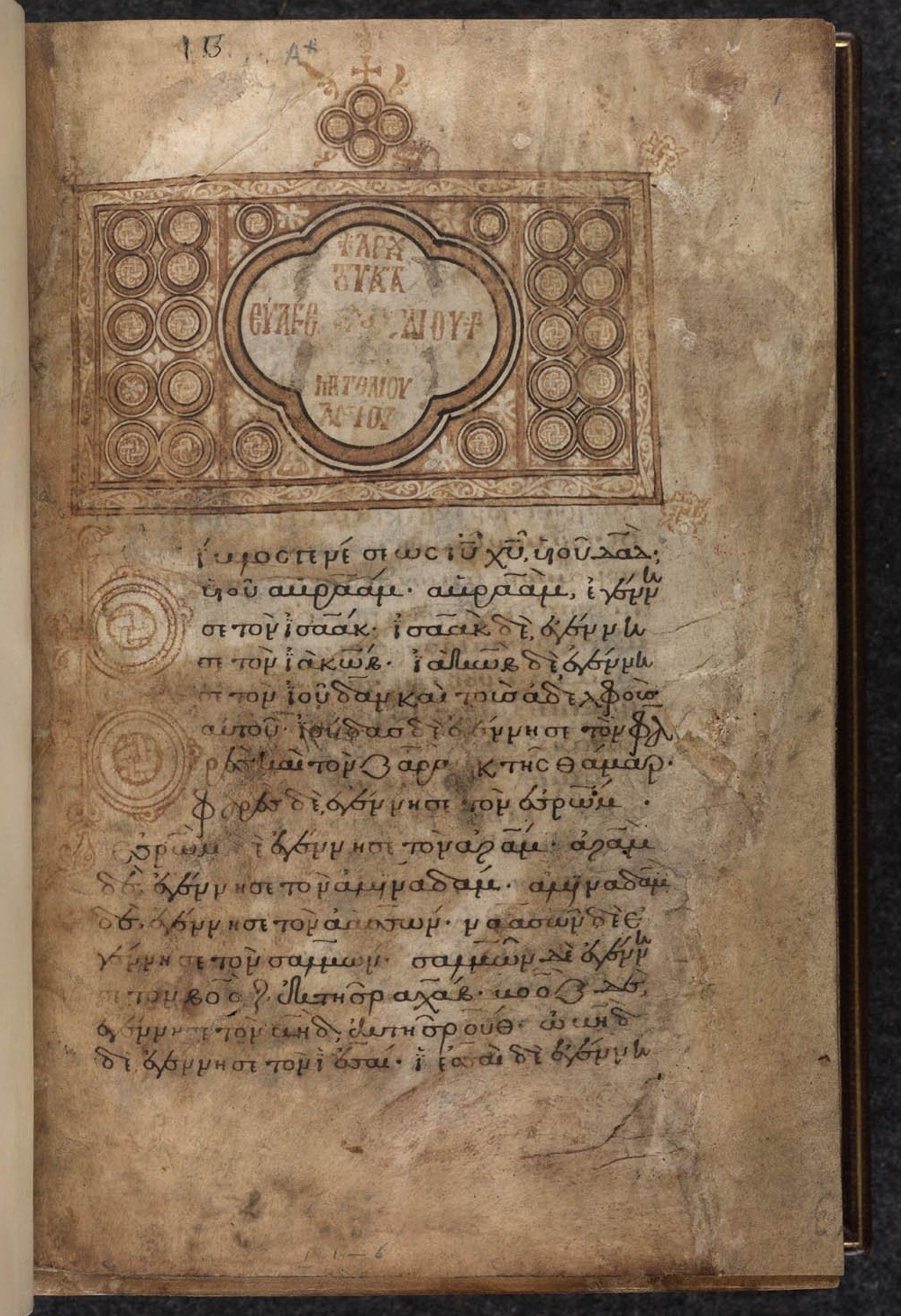 the first page of Matthew; the decorated head-piece and decorated initial 'B'